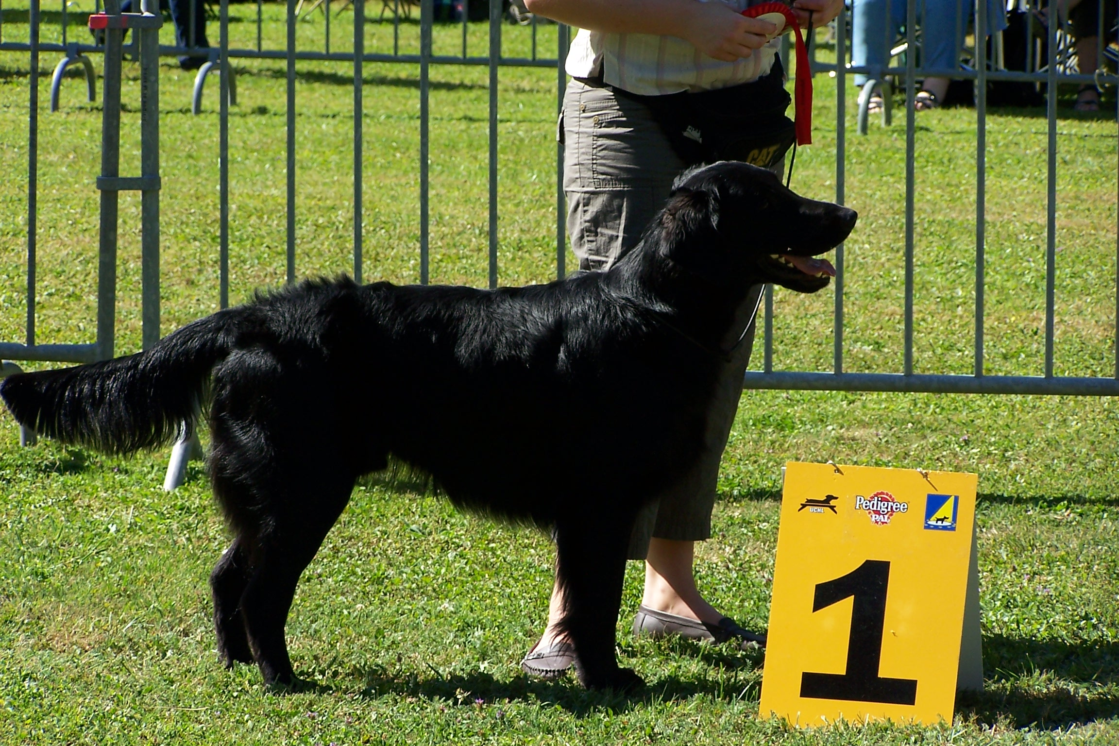 Flat-Coated Retriever black